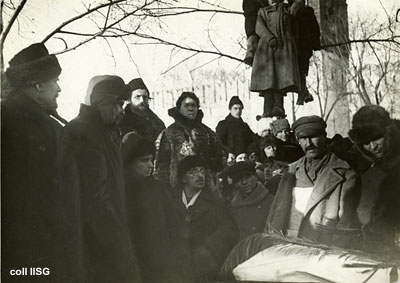 Speakers at Kropotkin funeral: Emma Goldman, Alexander Berkman and G.P. Maximov